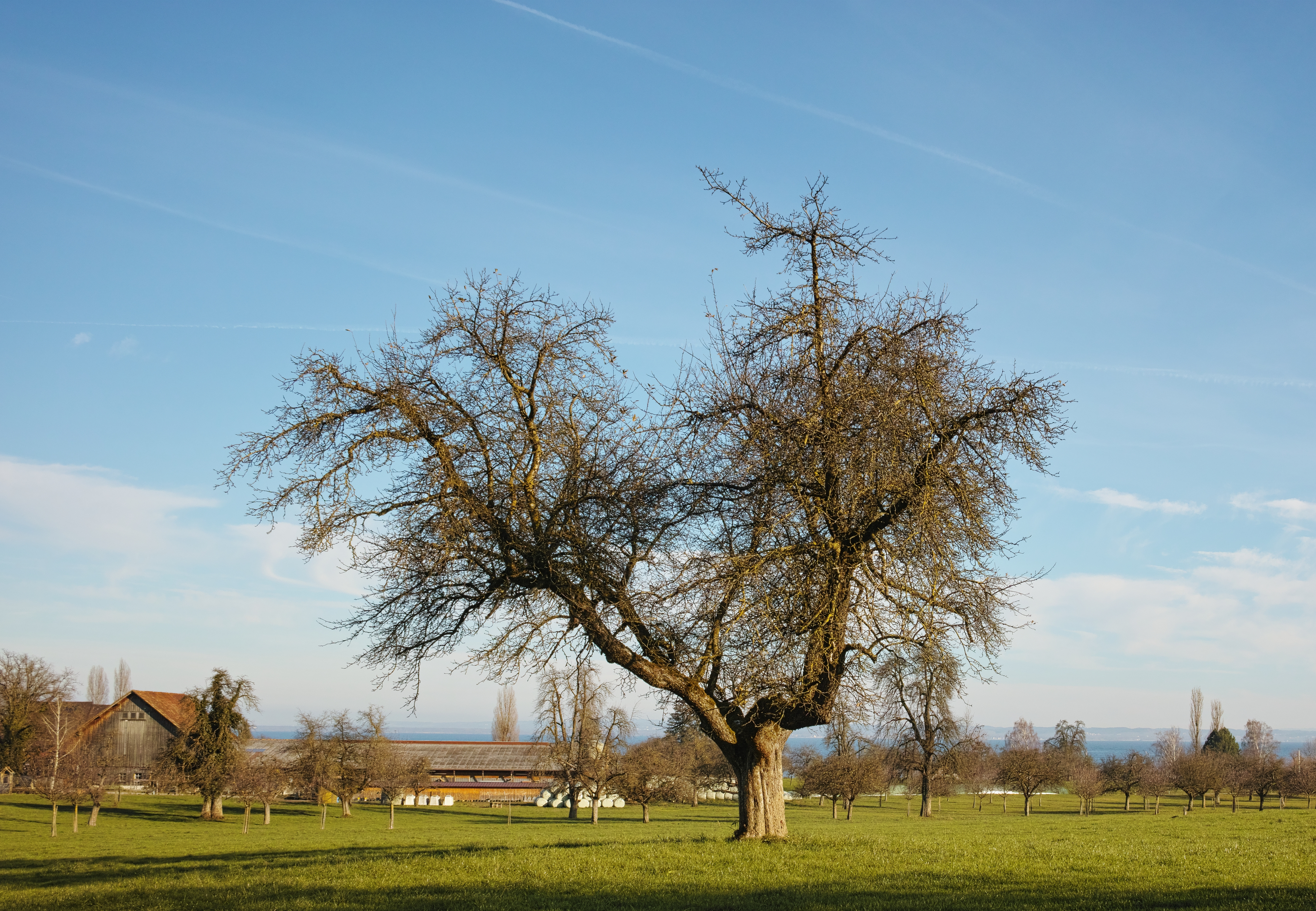 Fruit trees in the village of Frasnacht, view towards the hamlet Kratzern and Lake Constance.